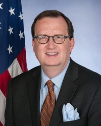 Richard M. Mills, Jr., U.S. Ambassador to Armenia as of 2015